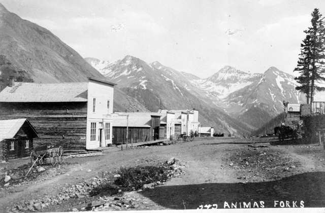 Wood buildings with false fronts line a rocky dirt street in Animas Forks, a town about 13 miles northeast of Silverton, Colorado. An unhitched wagon is in the left foreground near a store with a large wood sign "General Merchandise" over its entrance. Another unhitched wagon is in front of a business with an illegible sign. The Mercer Hotel stands farther down the block.